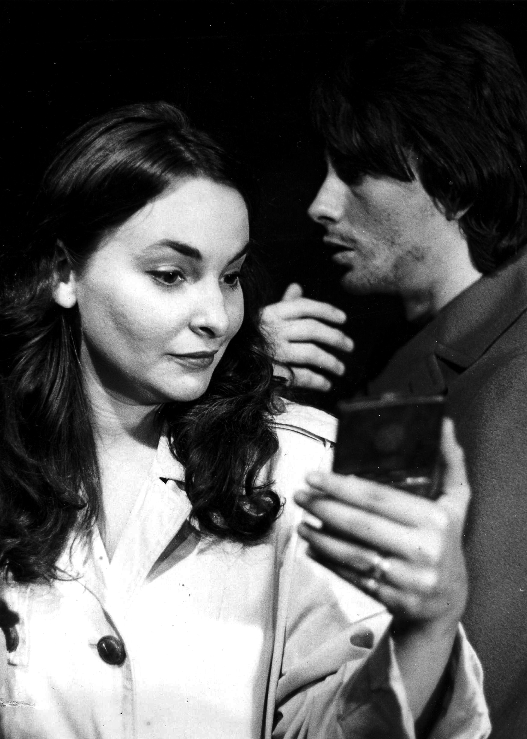 Stanley Keyes and unknown actress in Corner Theatre production, Baltimore, 1971.